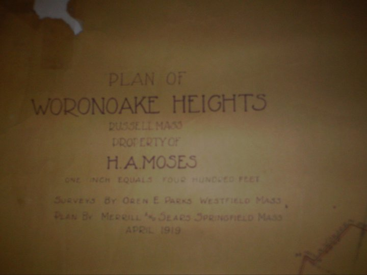 Property acquisitions by Horace A. Moses in Woronoake Heights, Massachusetts.